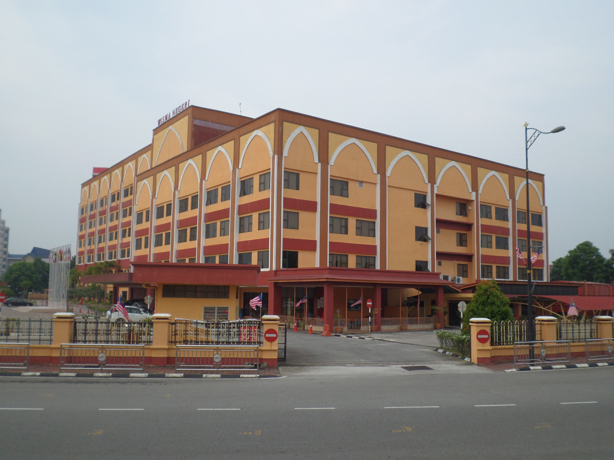 Melaka State Building, Ayer Keroh, Central Melaka, Melaka, Malaysia